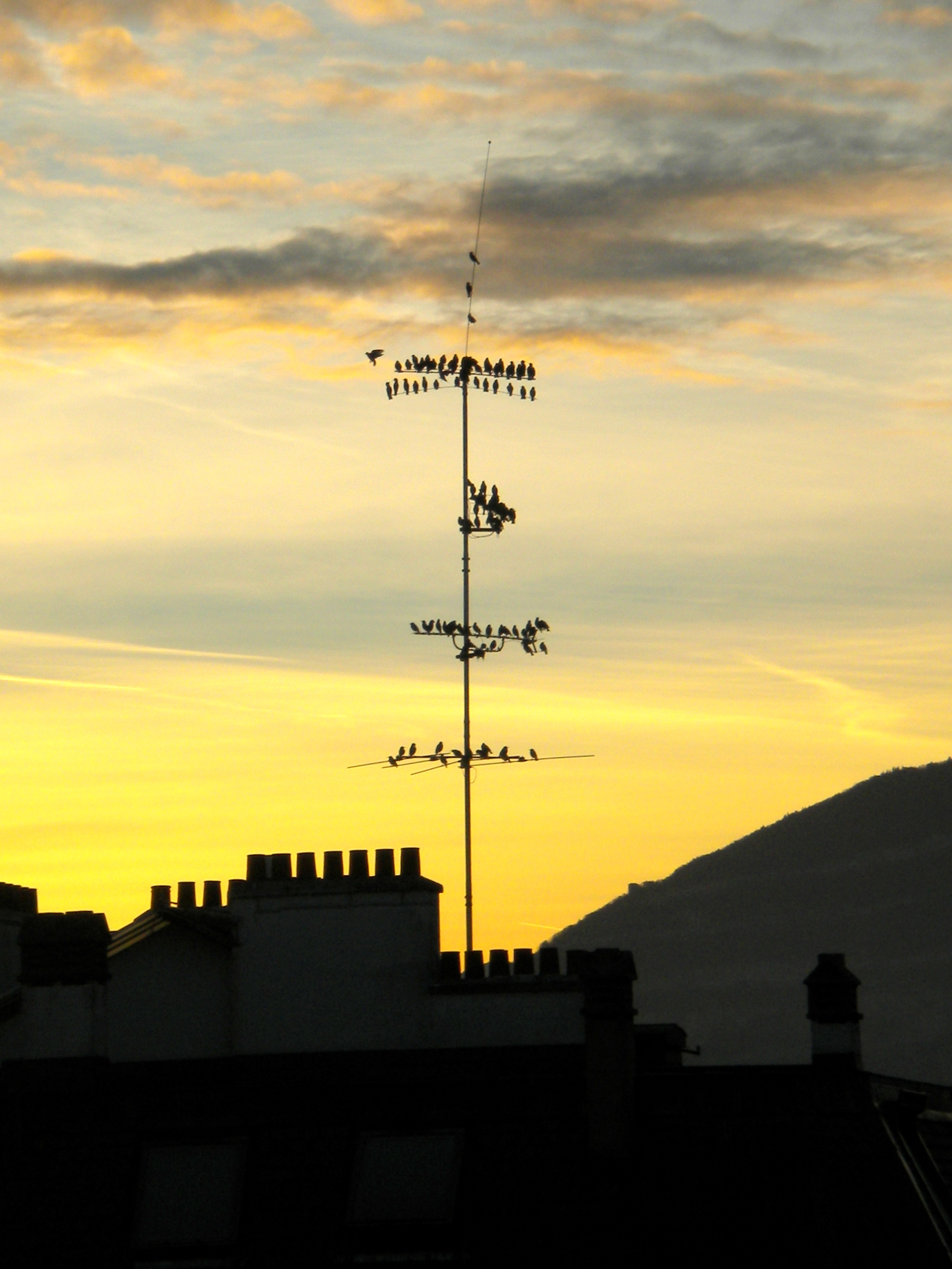 Flocks of birds assembling before migration southwards (Sturnus vulgaris?).